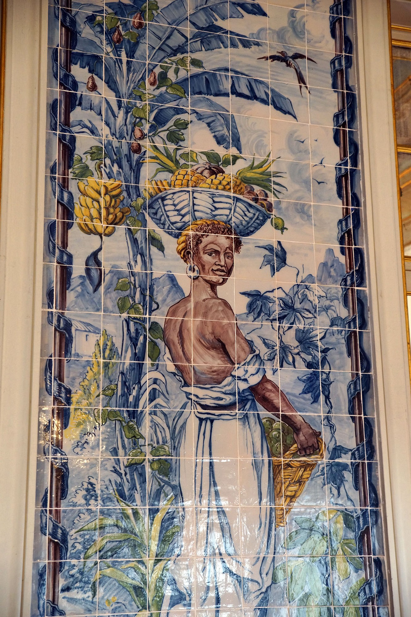 QUELUZ, Portugal QUELUZ (Wiki): Queluz – Palacio: National Palace of Queluz: PORTUGAL (Wiki)